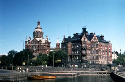 On the right side the Norrmén house in Katajanokka, Helsinki, Finland. The house was designed by architect Theodor Höijer, built in 1896–1897 and dismantled in 1960. The Uspenski cathedral can be seen on the left side.